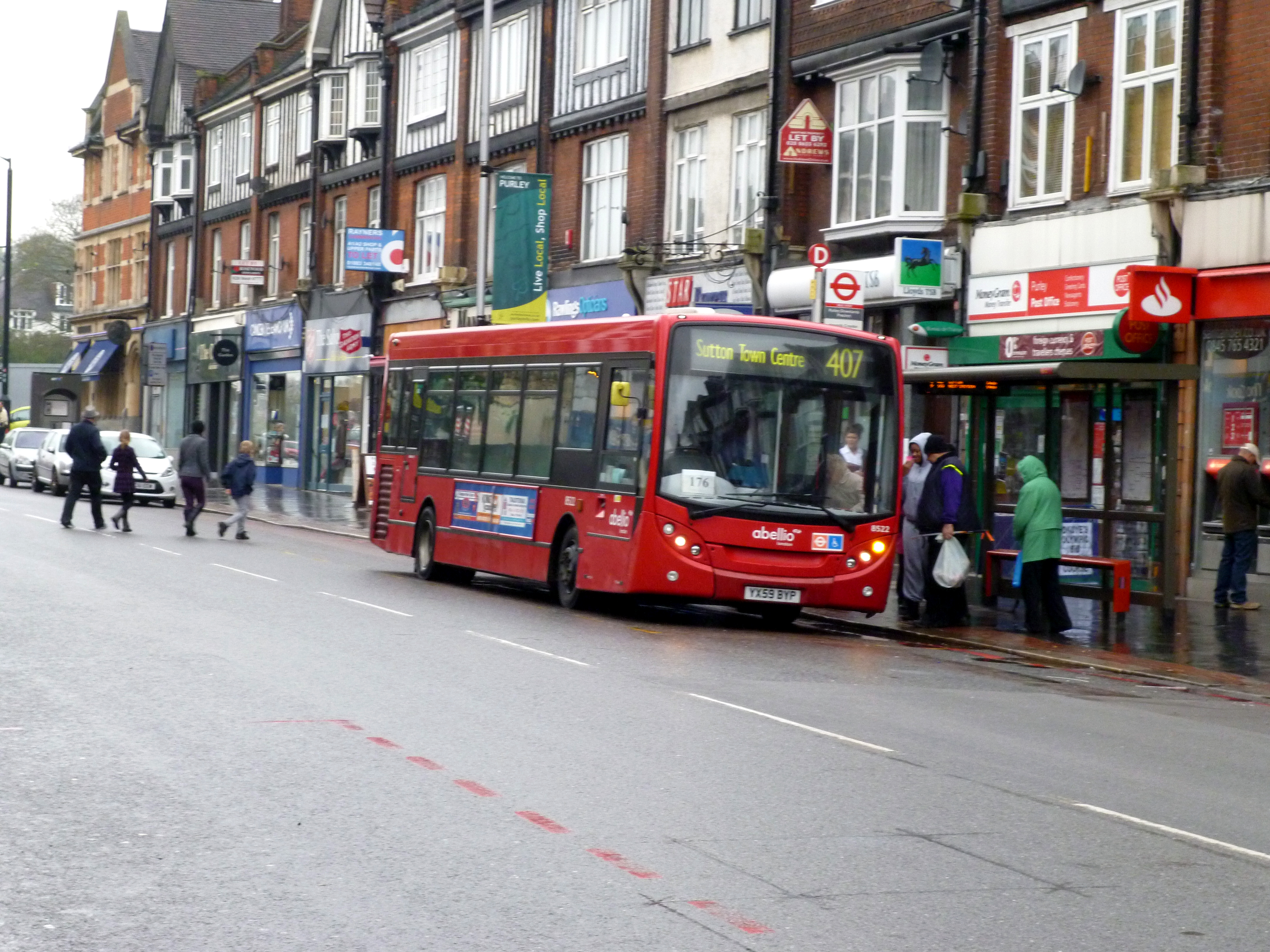 Purley: Bus on Route 407. Bus No 8522 is operated by Abellio, a subsidiary of Nederlandse Spoorwegen. The long Route 407 runs from Caterham Valley, via Croydon, to Sutton. When the route was first begun, midibuses were used, but were soon found to be... more